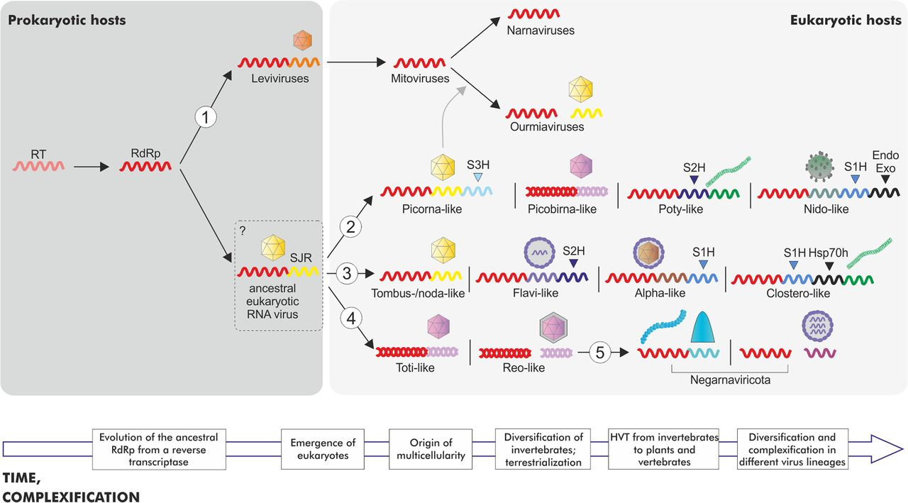 A general scenario of RNA virus evolution. The figure is a rough scheme of the key steps of RNA virus evolution inferred in this work. The main branches from the phylogenetic tree of the RdRps are denoted with the numbers 1 to 5 as described in the Fig. 1 legend. Only the genes corresponding to RdRp, CP, and helicases (S1H, S2H, and S3H for the helicases of superfamilies 1, 2, and 3, respectively) are shown systematically. The helicases appear to have been captured independently and in parallel in 3 branches of +RNA viruses, facilitating the evolution of larger, more complex genomes. Additional genes, namely, the Endo and Exo genes (for endonuclease and exonuclease, respectively) and the Hsp70h gene (heat shock protein 70 homolog), are shown selectively, to emphasize the increased genome complexity, respectively, in Nidovirales and in Closteroviridae. The virion architecture is shown schematically for each included group of viruses. Icosahedral capsids composed of unelated CPs are indicated by different colors (see the text for details). The question mark at the hypothetical ancestral eukaryotic RNA virus indicates the uncertainty with regard to the nature of the host (prokaryotic or eukaryotic) of this ancestral form. The block arrow at the bottom indicates the time flow and the complexification trend in RNA virus evolution.